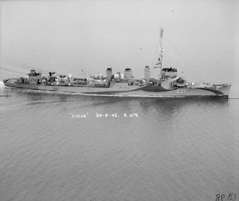 HMS Leeds Underway.